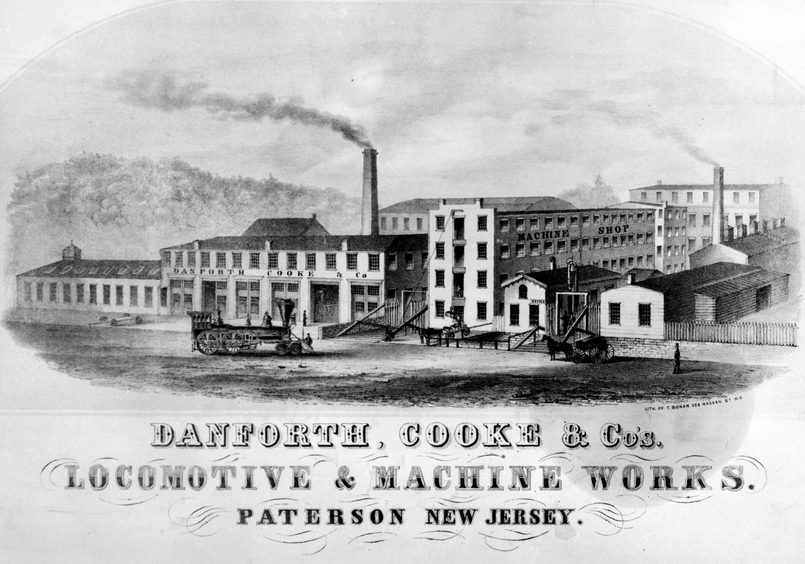 Lithography of Danforth, Cooke & Co's Locomotive & Machine Works in Paterson, New Jersey.